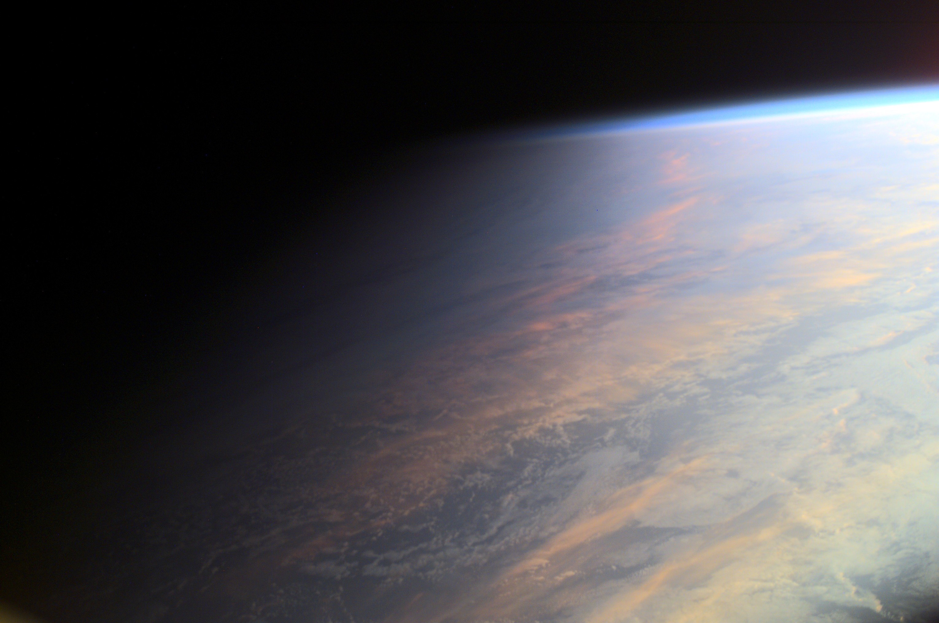 No sudden, sharp boundary marks the passage of day into night in this gorgeous view of ocean and clouds over our fair planet Earth. Instead, the shadow line or terminator is diffuse and shows the gradual transition to darkness we experience as twilight. With the Sun illuminating the scene from the right, the cloud tops reflect gently reddened sunlight filtered through the dusty troposphere, the lowest layer of the planet's nurturing atmosphere. A clear high altitude layer, visible along the dayside's upper edge, scatters blue sunlight and fades into the blackness of space. This picture actually is a single digital photograph taken in June of 2001 from the International Space Station orbiting at an altitude of 211 nautical miles.